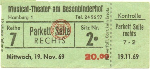 Ticket for Musical "Hair" in Hamburg, 1969